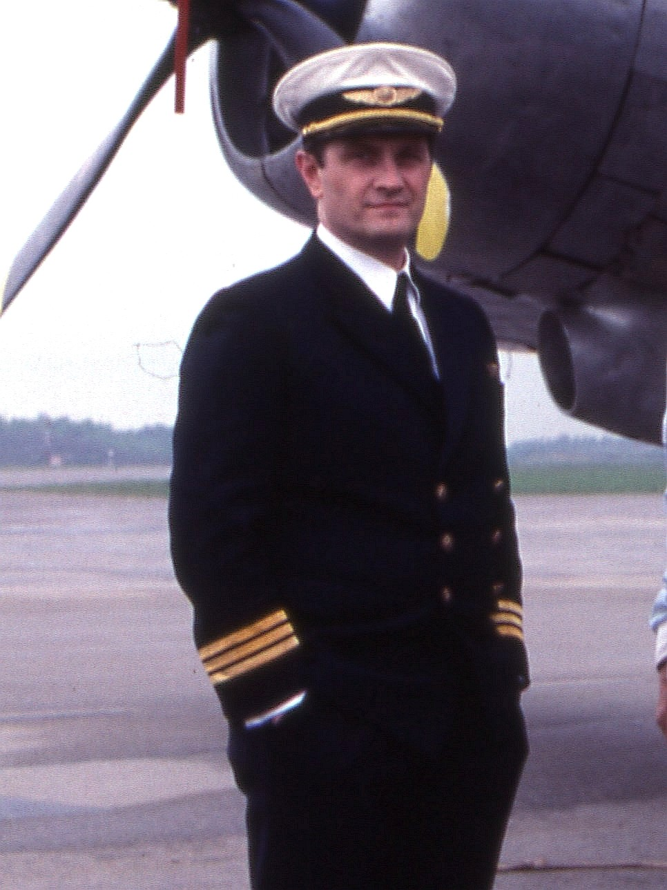 Allan Svensson as 'Brantfors' on location for TV-serie "Three Loves"